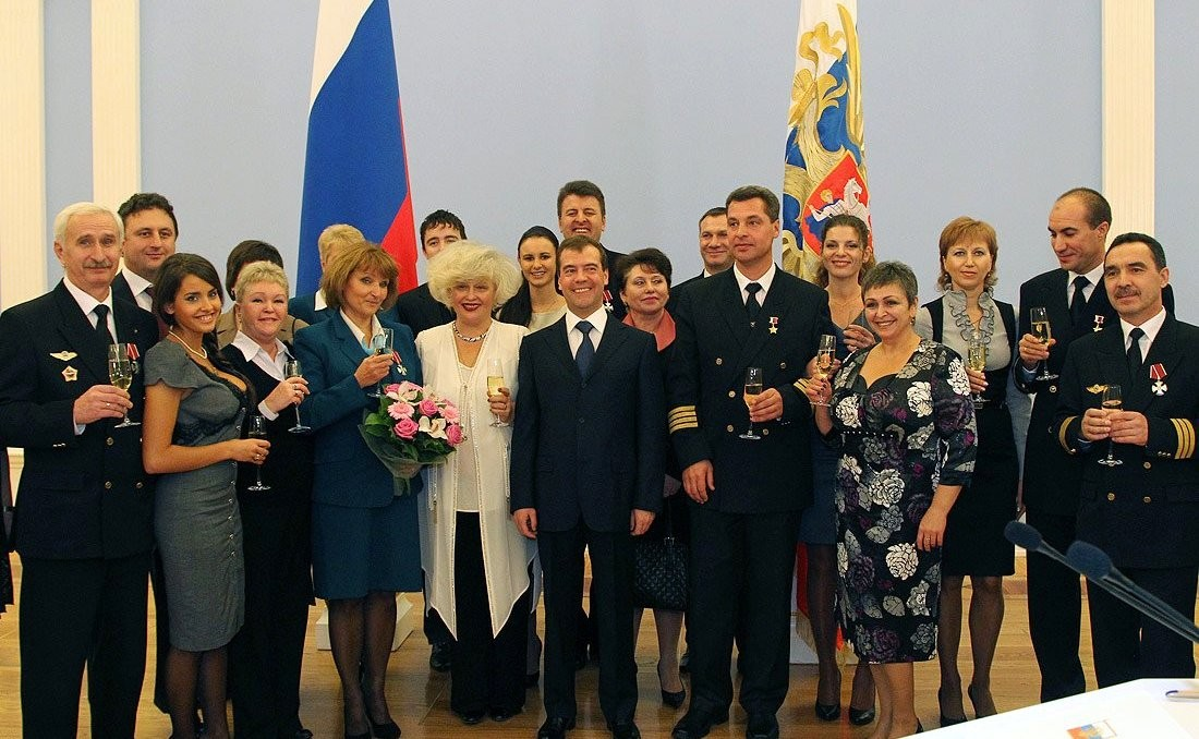 Dmitry Medvedev and the crew of Alrosa Flight 514 (accident at Izhma 7 sept 2010). Moscow, Kremlin. 16 nov 2010.